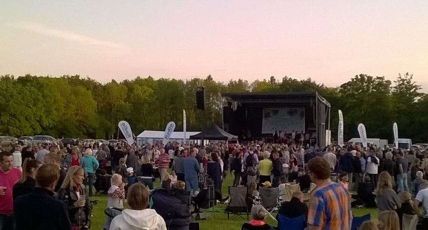 The Danish band called Sømændene (meaning The Sailors).